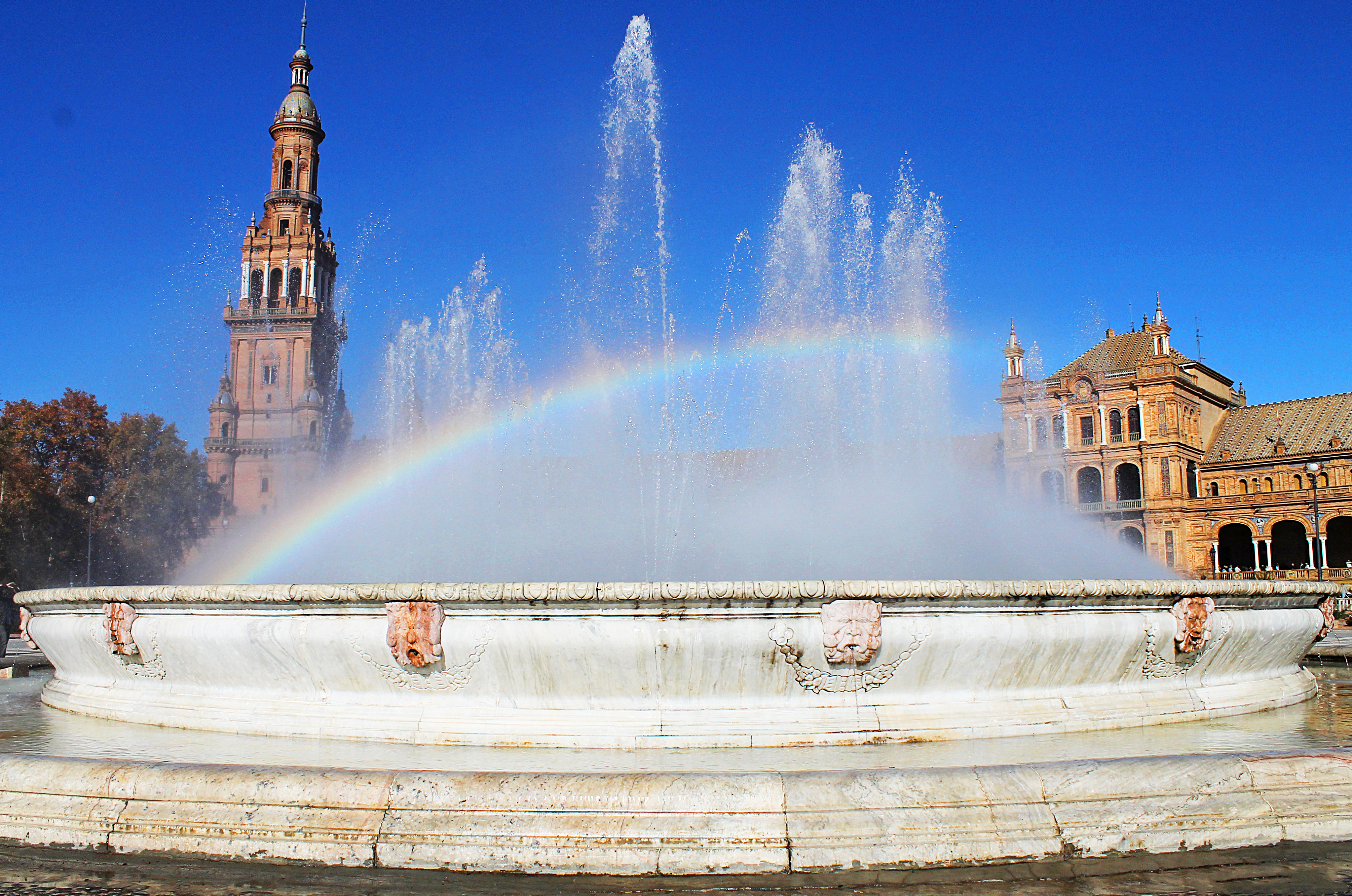 reflection in the fountain of Plaza de Espana